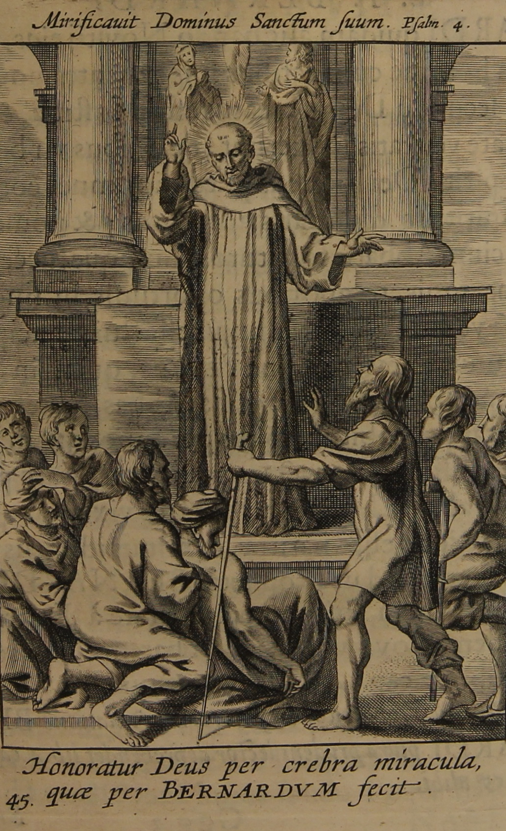 Copperplate print by Jacobus Neeffs, 1653 in 'Sancti Bernardi Melliflui Doctoris Ecclesiae, Pulcherrima & Exemplaris Vitae Medulla' p. 372. St. Bernard heals the sick and performs miracles.